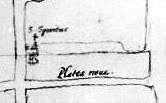 Sketch of the central area of Maastricht by Simon de Bellomonte, perhaps made for planning preparations of the Jesuit monastery (1587). Collection of the Bibliothèque national de France, Paris.